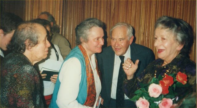 Irena Szymańska (1921-1999), Polish editor and translator, Małgorzata Baranowska (1945-2012), Polish essayist and literary critic, Ryszard Matuszewski (b. August 18, 1914 in Warsaw, Poland, d. April 29, 2010 in Warsaw, Poland) - Polish literary critic, writer, essayist and publicist and Wisława Szymborska (1923-2012), Polish poet, Nobel Prize Laureat